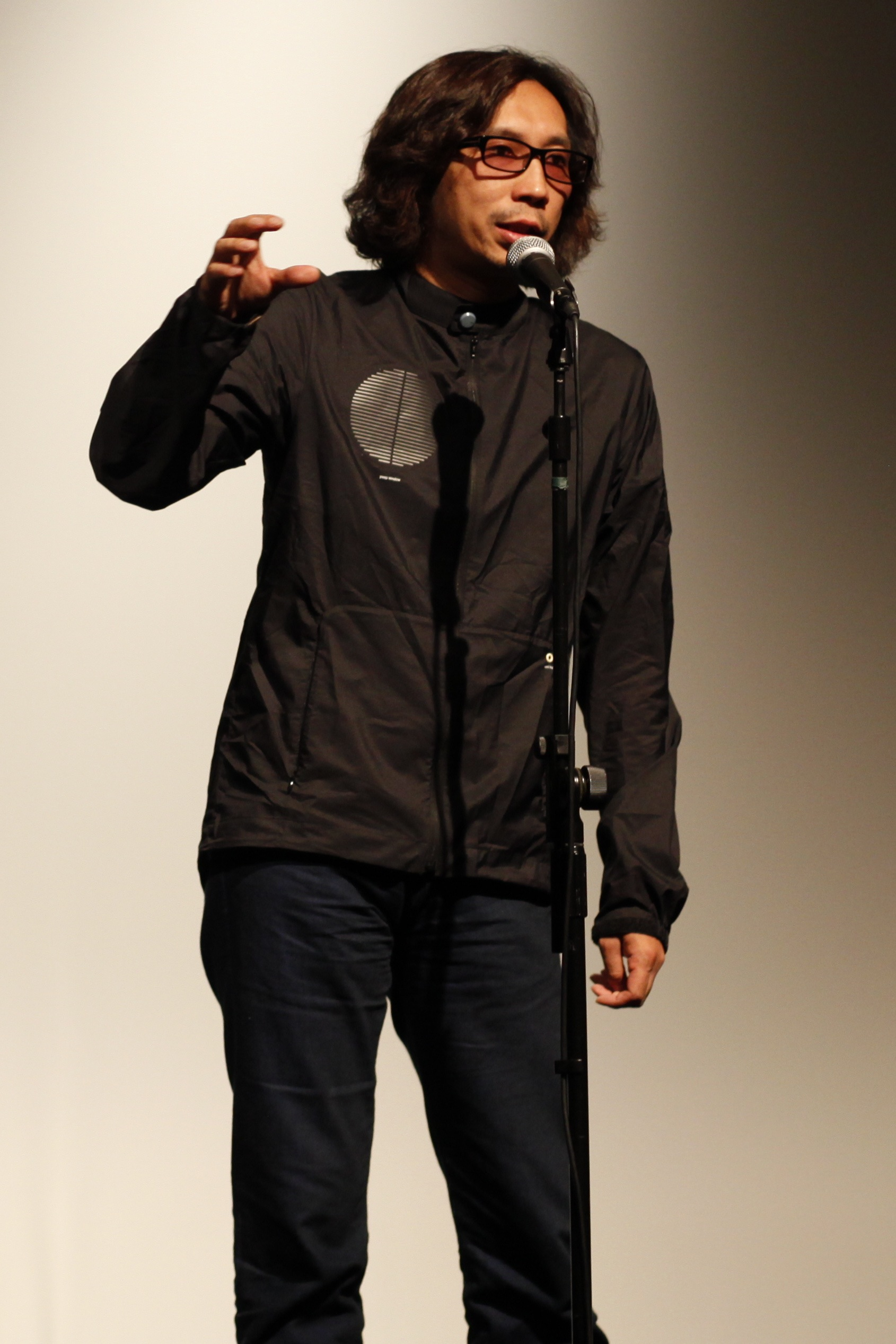 Director Isao Yukisada at the Japan Cuts 2010 film festival in NYC answering audience questions after the showing of his film "Parade"